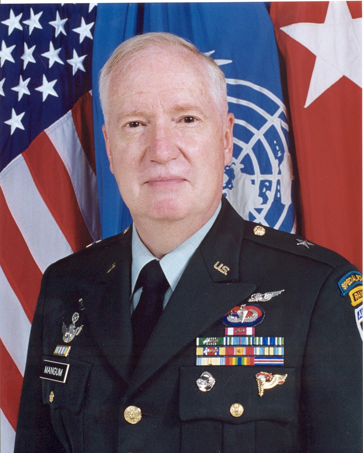 Official Photograph of Brigadier General Ronald S Mangum